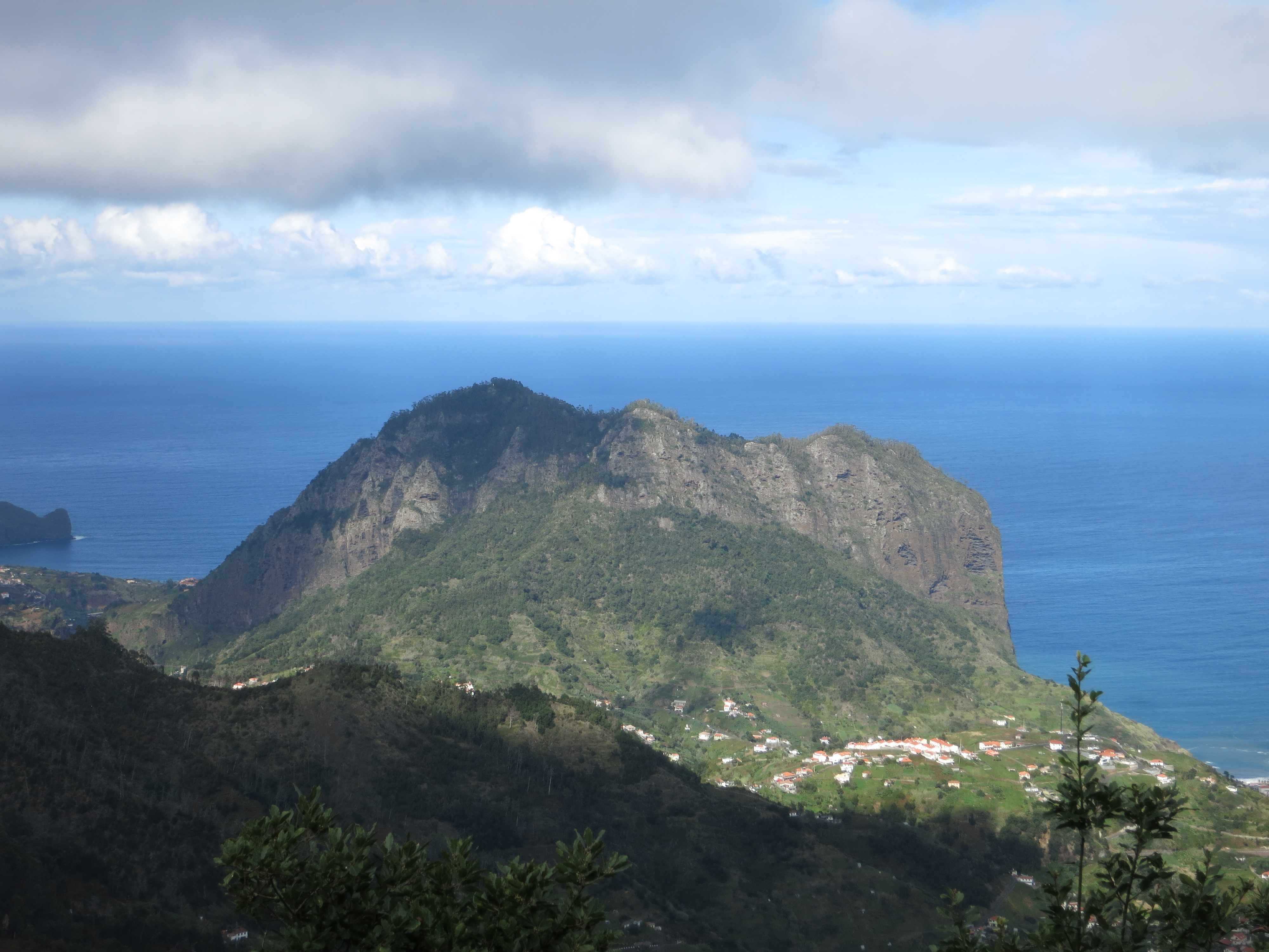 Penha de Aguia, rock in Madeira